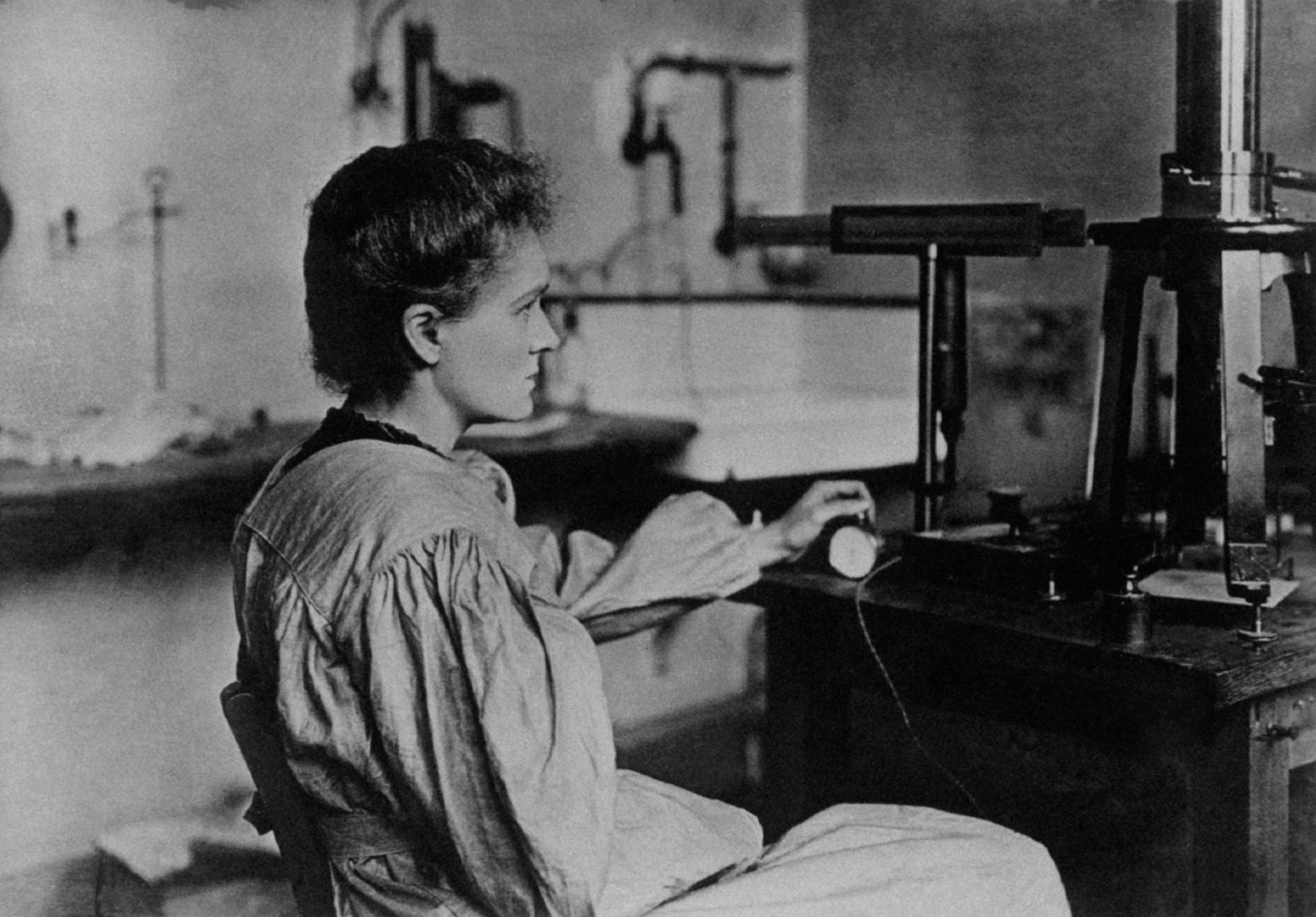 The measurement of radioactivity requires great dexterity and inventive spirit. It was made possible with an experimental advice conceived by Pierre Curie, which makes it possible to measure very small charges.